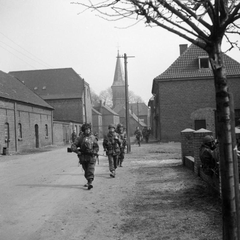 British paratroops in Hamminkeln, Germany, during airborne landings east of the Rhine.